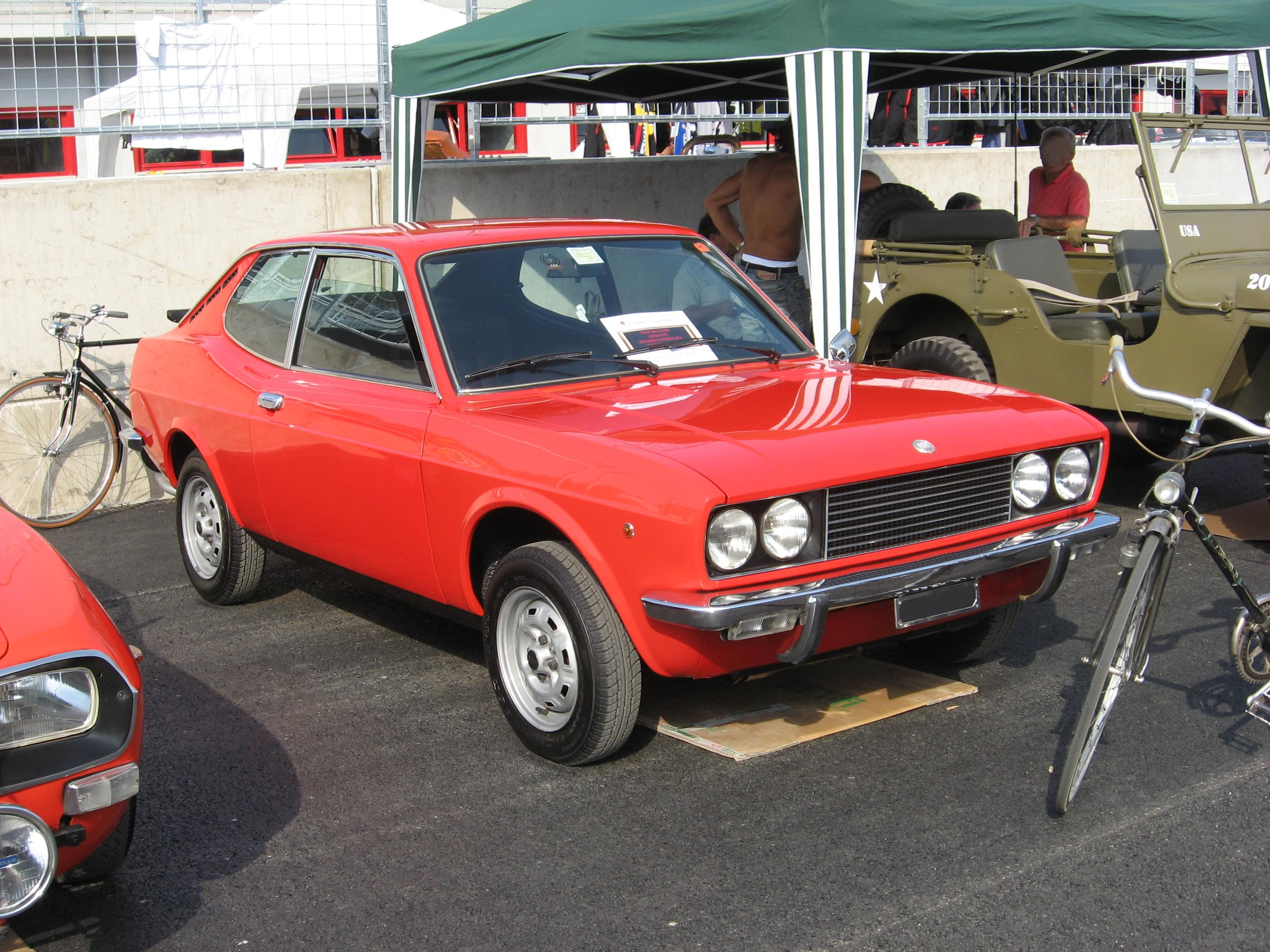 Subject: Fiat 128 Sport Author: Luc106 Date: September 23rd, 2007 Place/Country: Imola Circuit (BO), Italy I release all rights in the public domain.